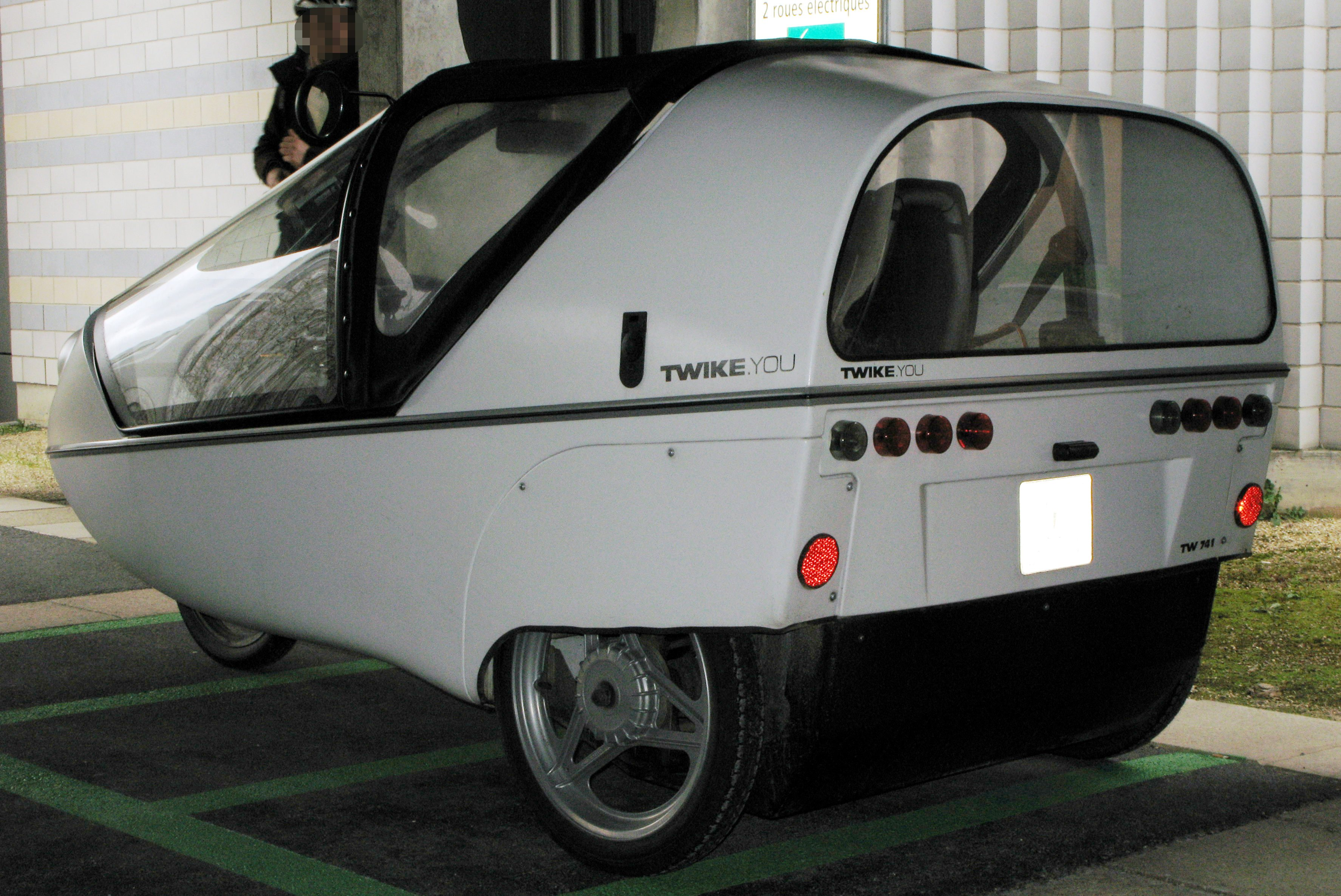 Twike